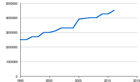 Europa PArk